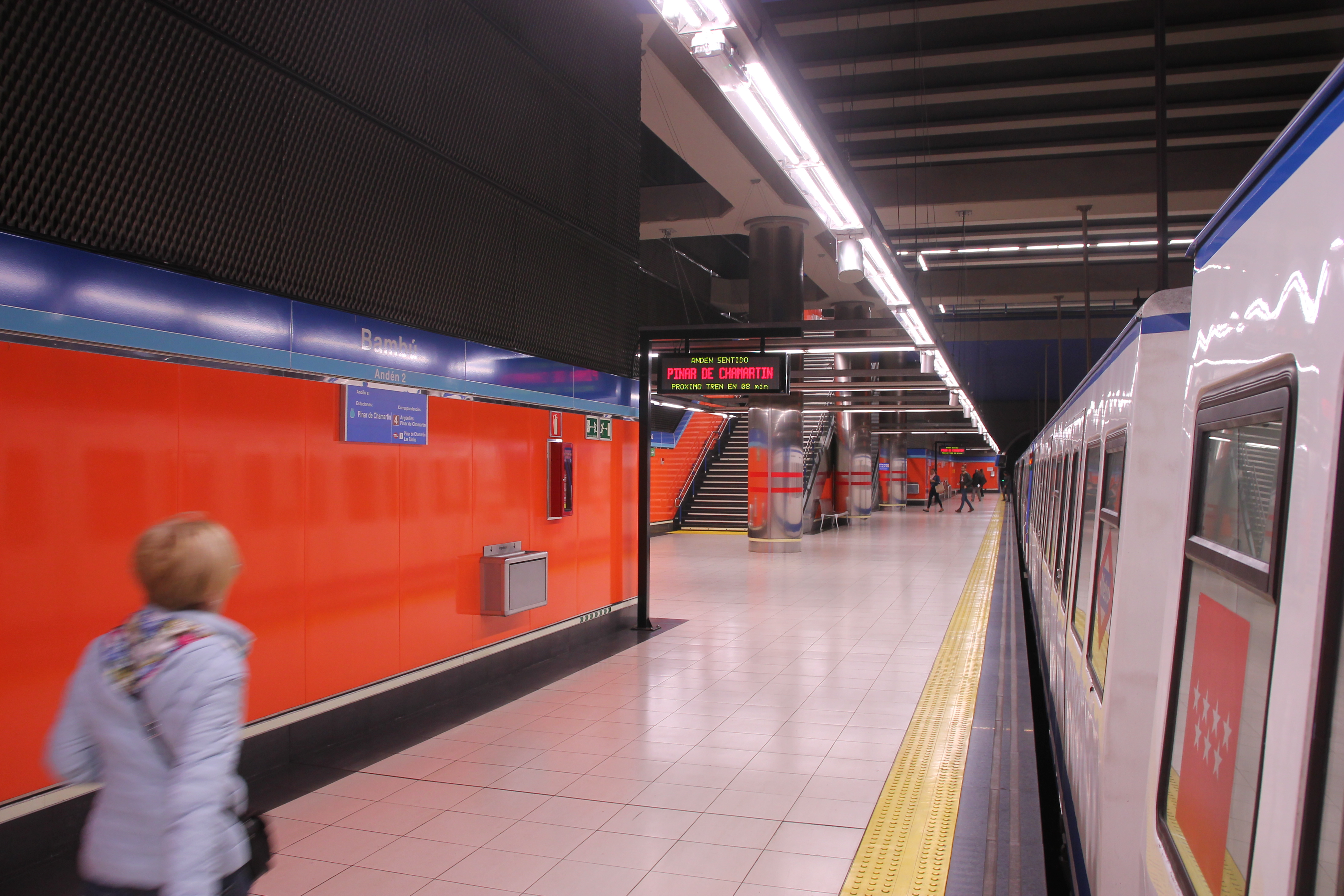 Estación de Bambú